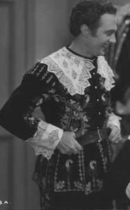 Marcial Manent- actor